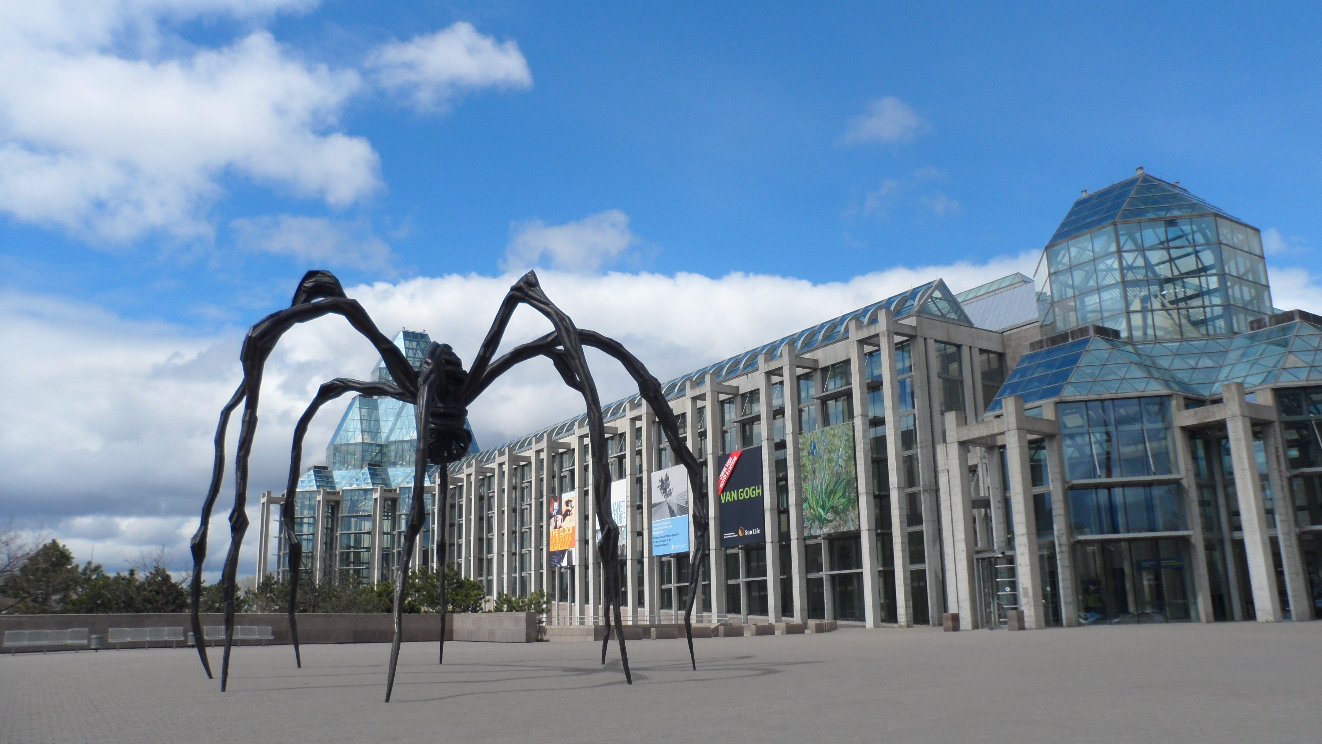 National Gallery of Canada, Ottawa